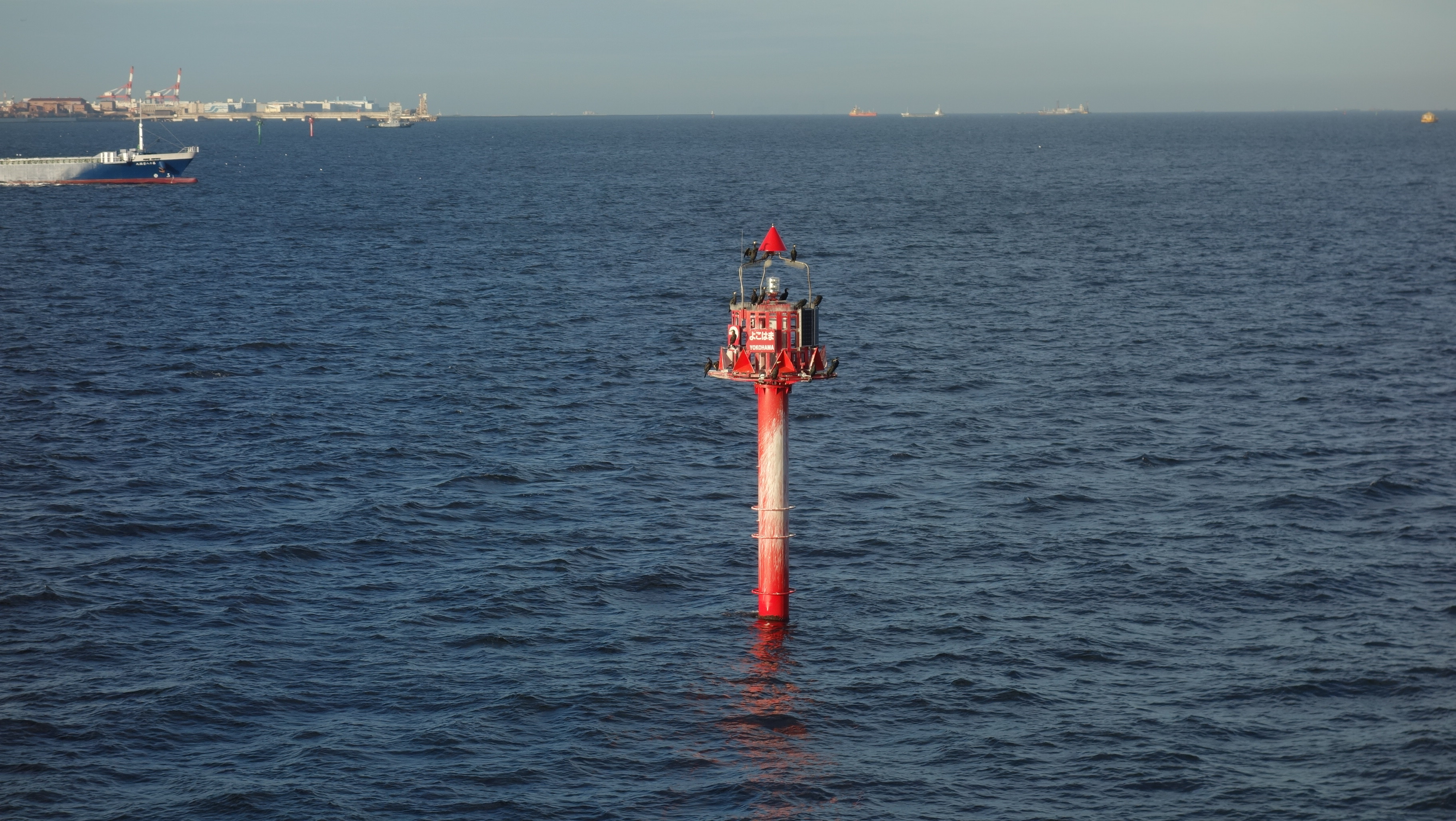 Yokohama Passage No. 2 light beacon